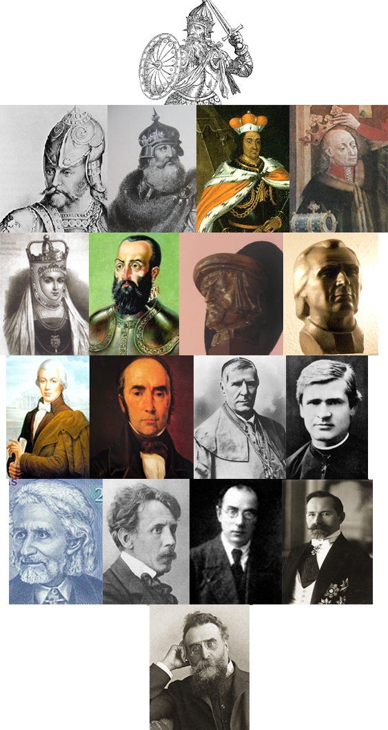 Lithuanians (from top, left to right): Lithuanian king Mindaugas The factual accuracy of this description or the file name is disputed.Reason: Please see the relevant discussion on the talk page.; Grand Dukes - Gediminas The factual accuracy of this description or the file name is disputed.Reason: Please see the relevant discussion on the talk page.; Kęstutis; Vytautas; Jogaila The factual accuracy of this description or the file name is disputed.Reason: Please see the relevant discussion on the talk page.; Grand Duchess Barbora Radvilaitė; Grand Hetman of Lithuania Mikolaj Krzysztof Radziwiłł; author of the first printed lithuanian book Martynas Mažvydas; pastor and poet Kristijonas Donelaitis; architect Luarynas Gucevičius; historian Simonas Daukantas; bishop Motiejus Valančius; poet and bishop Antanas Baranauskas; philosopher Vydūnas; compositor Mikalojus Konstantinas Čiurlionis; linguist and philologist Kazimieras Būga; first President of Lithuanian republic Antanas Smetona; signatory of Lithuanian's independence reestablishment act Jonas Basanavičius.